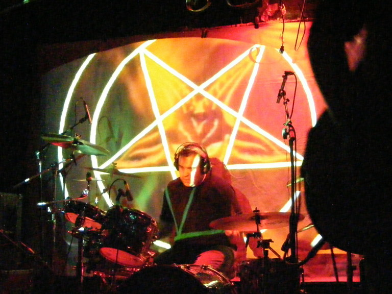 Example of the visual show projected during a God Is An Astronaut concert.